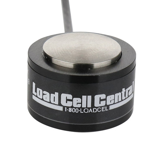 DTB miniature load cell from Load Cell Central